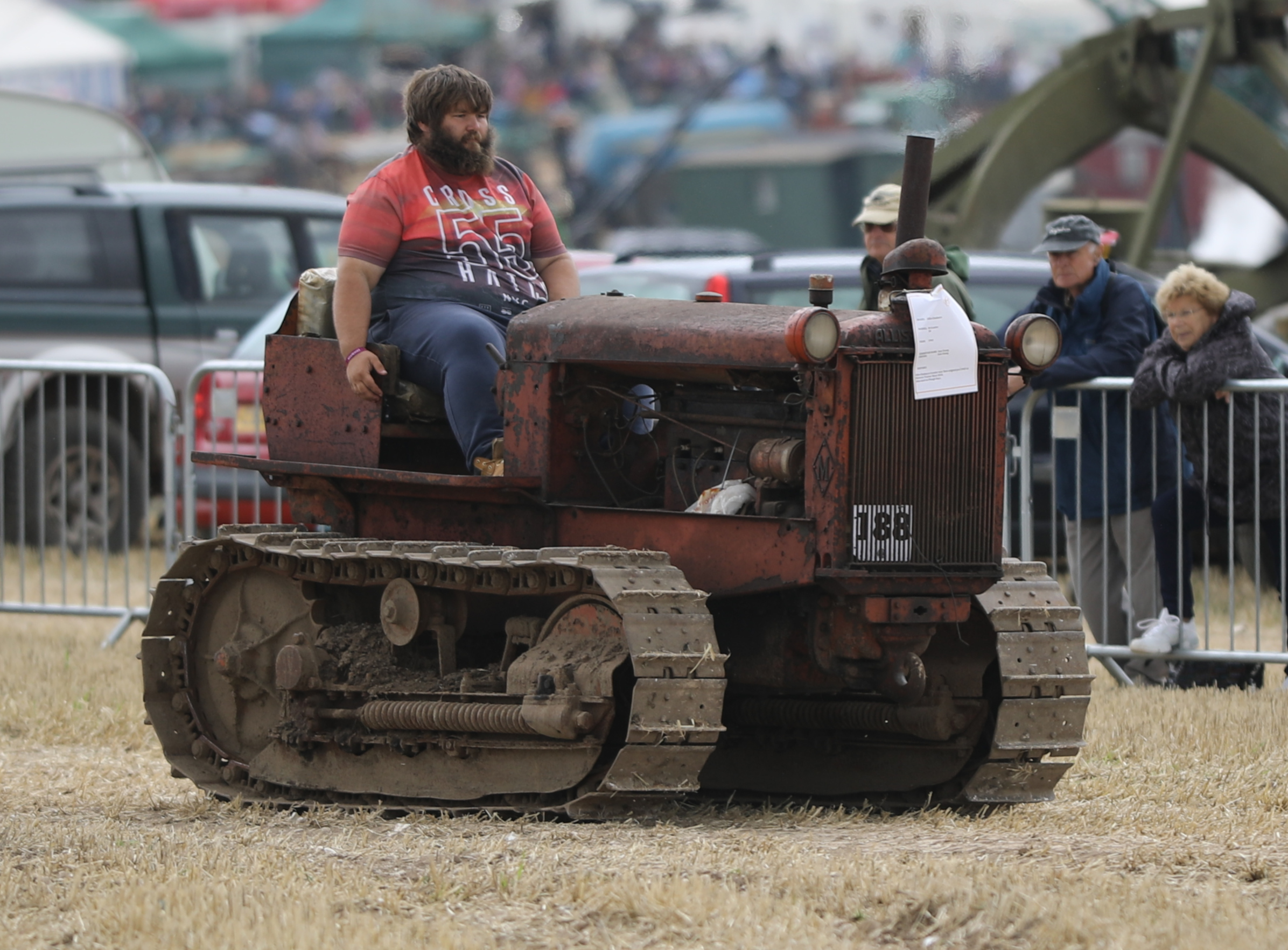 Photo of a Allis Chalmers M crawler from 1942. 2018 GDSF program number 188